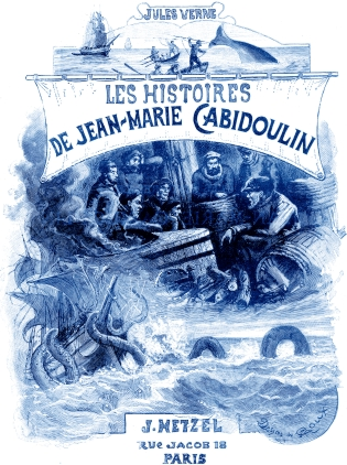 An illustration from Jules Verne's novel "The Sea Serpent: The Yarns of Jean Marie Cabidoulin" (lit. "The Stories of Jean-Marie Cabidoulin", 1901) drawn by George Roux.